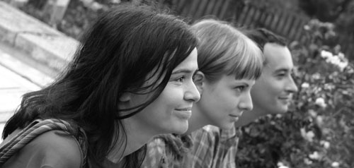 A sample image for image burning -- this is the original, B&W, unburnt image. Copyright Gutza 2004